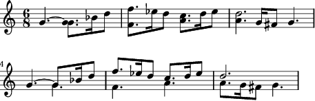 Oboe theme from L'Arlésienne (Georges Bizet); example of two voices on a single staff with LilyPond, with two different methods